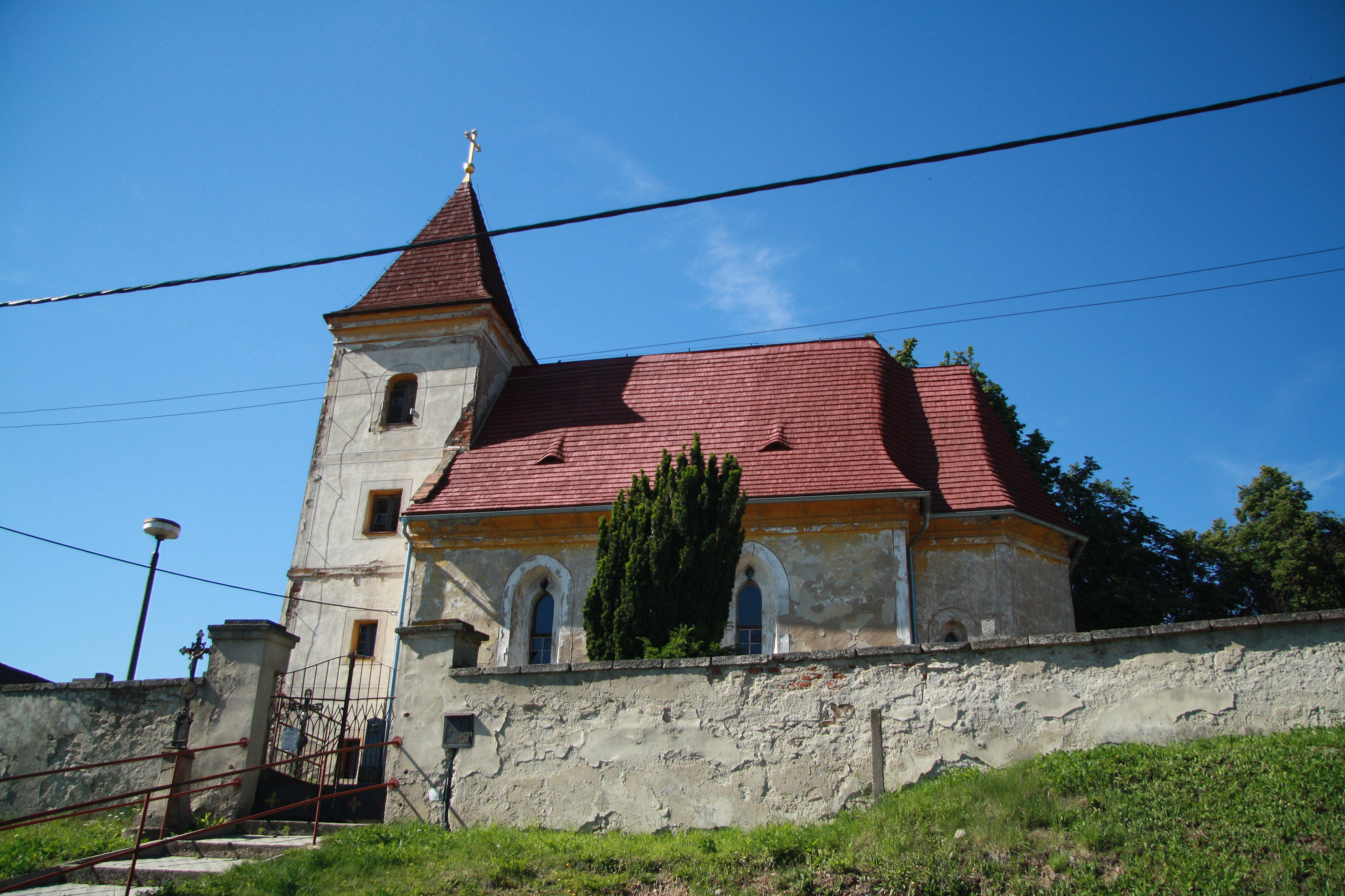 Overview of Chapel of Saint Catherine in Želetava, Třebíč District.